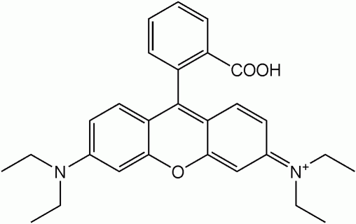 Chemical structure of Rhodamine B